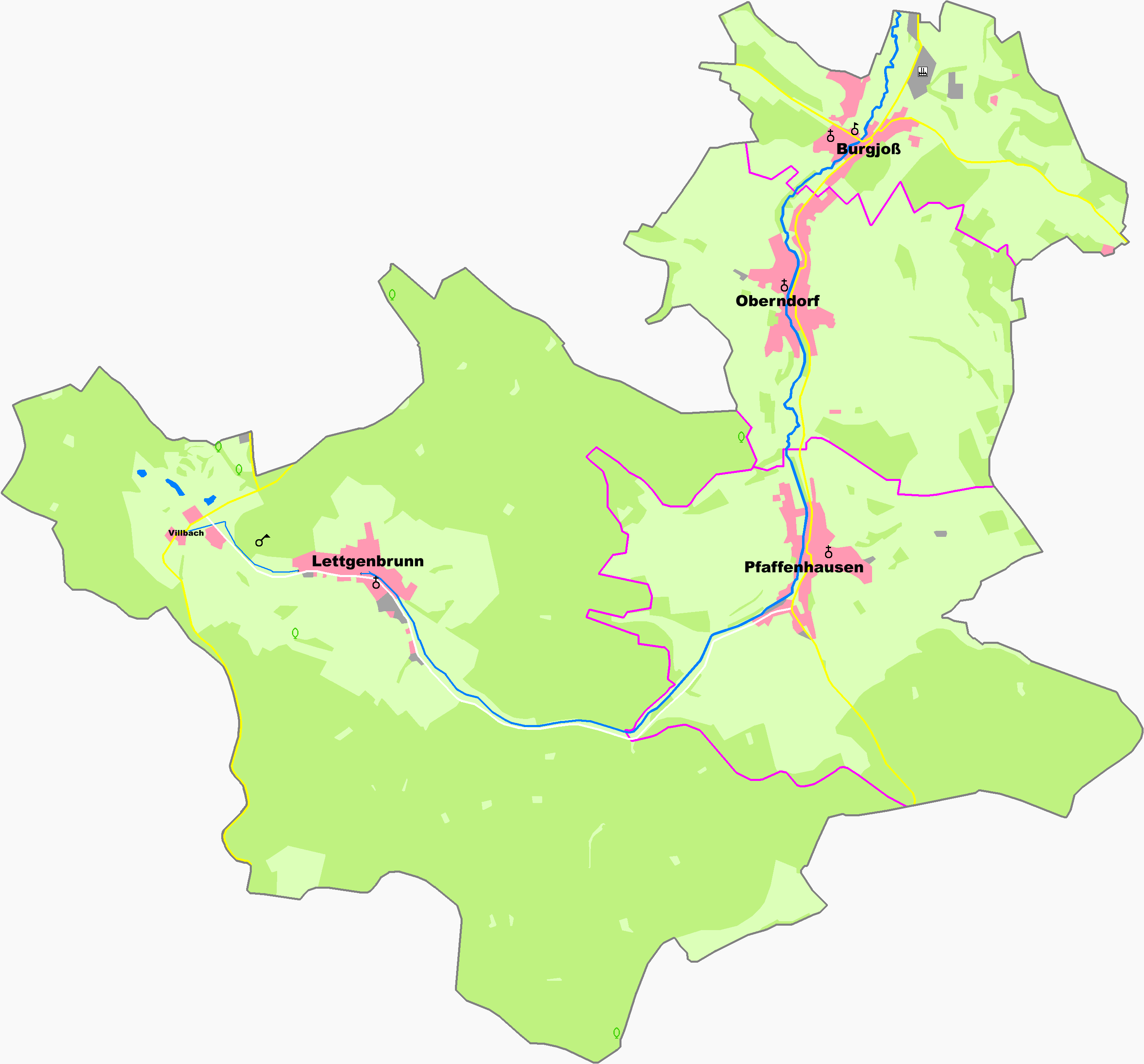 Municipal area and districts of Jossgrund Grassland, Meadow Settlement area Industrial area Forest Body of water Municipal border District border Main street Side street Industrial park Church Château Ruin Natural monument